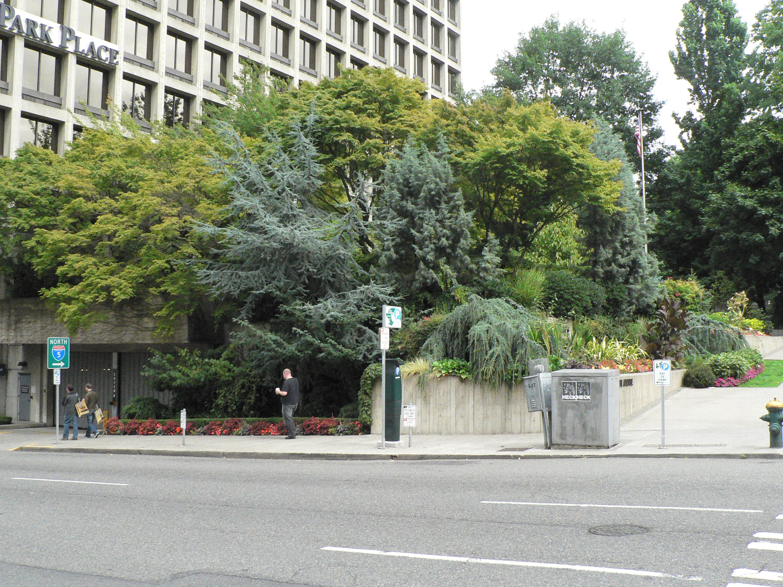 Sixth Avenue, Seattle, Washington. Park Place building at left; Freeway Park at right.